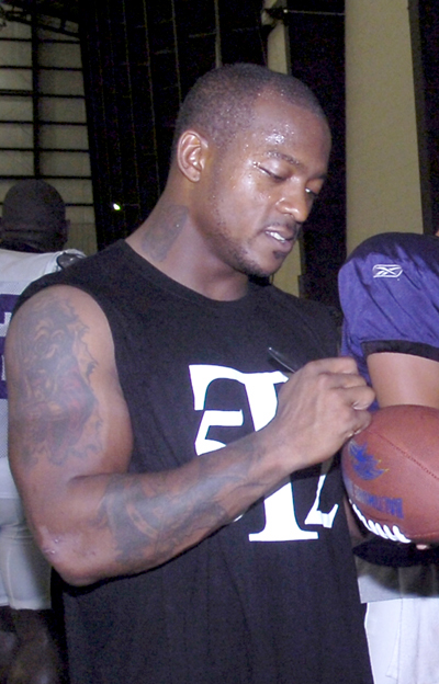 Willis McGahee, Baltimore Ravens running back, autographs a football for Senior Airman Christopher West during a break in their training camp session. Airman West is assigned to the 316 SFS as a Security Response Team leader.